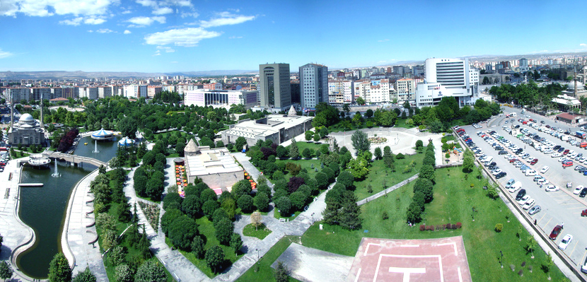 A view from the city center of Kayseri, Turkey.